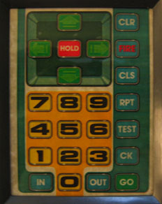 I am the author of this picture, I took it of my bigtrak (popular toy from the 1980's) keypad. I release all rights to this picture and release it into the public domain.